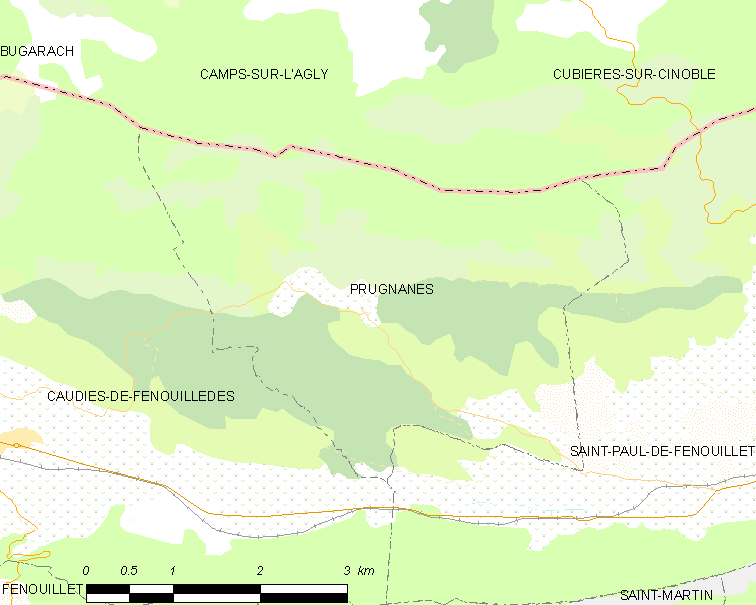 Map of French municipality